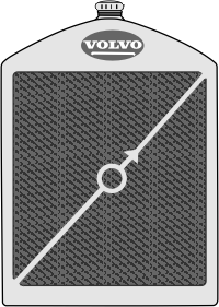 Volvo original preliminary logotype used for the Volvo ÖV4 modell.